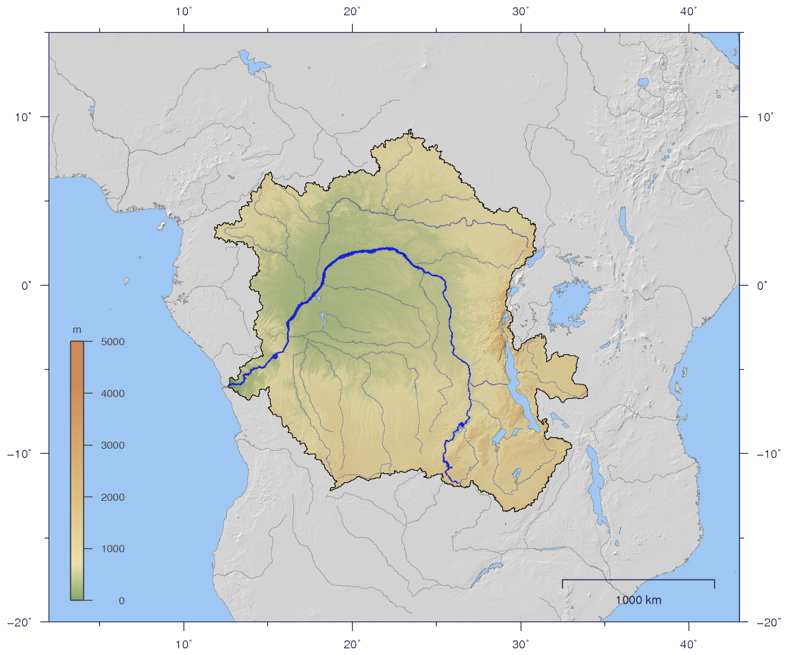 Course and Watershed of the Congo and Lualaba River with topography shading.